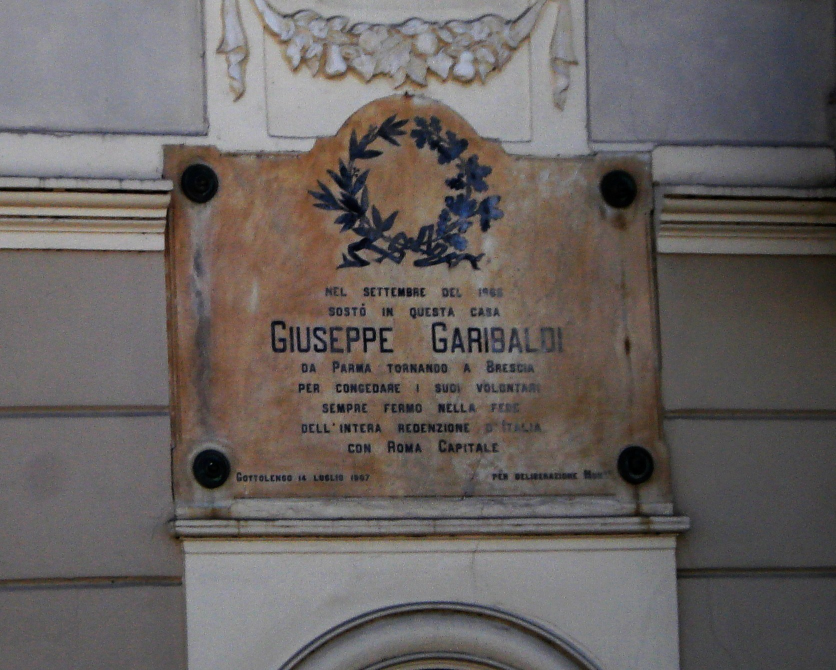 The stone that remember the tripe of Garibaldi in Gottolengo